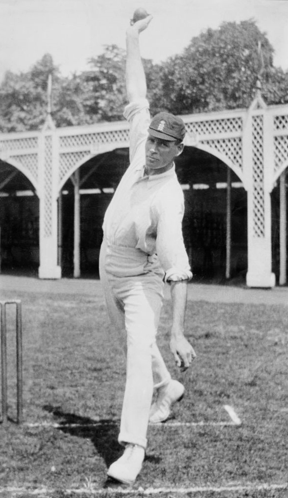 England cricketer Sydney Francis Barnes demonstrates his bowling action on the Nursery Ground at Lord's cricket ground in London